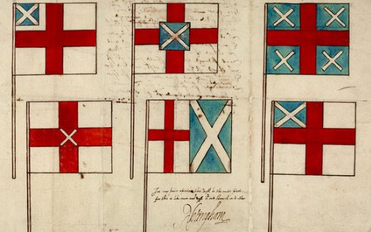 Tentative designs for a flag for the combined kingdom of England and Scotland, with the signature of the Earl of Nottingham.